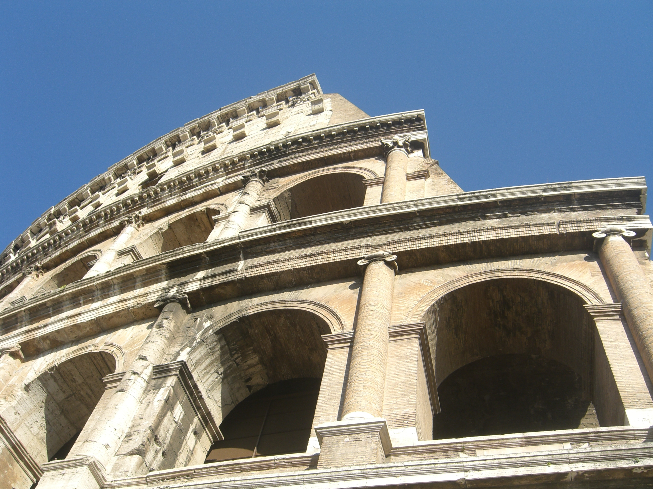 Post Card from Outside